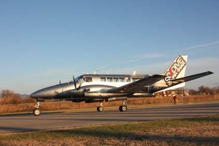 Beechcraft 99 Airliner. Serial number: U-46. Owned by Skydive Empuriabrava since 2013, currently registered in Spain as EC-LZK